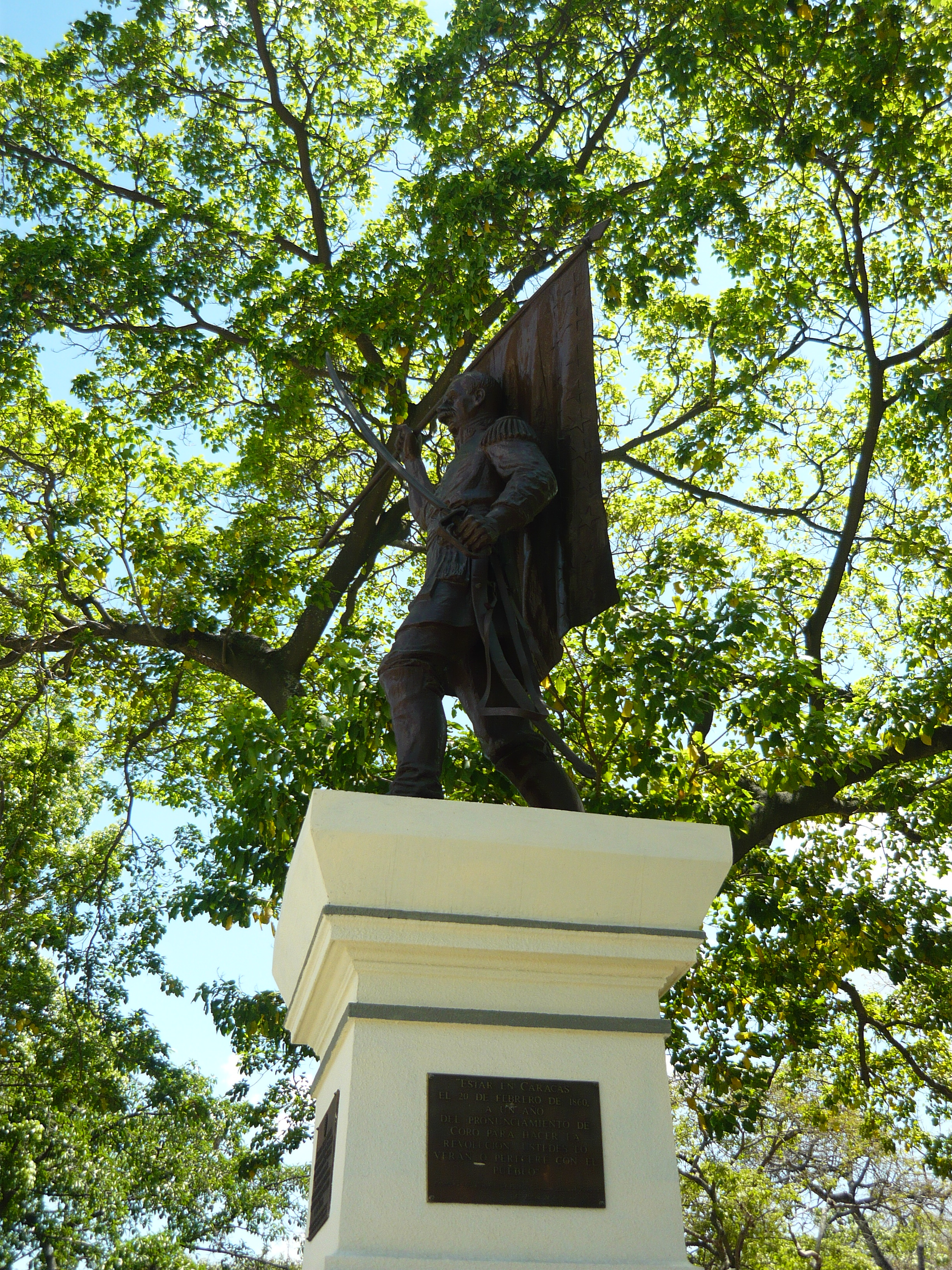 Ezequiel Zamora, Héroe y Líder de la Federacion Venezolana.